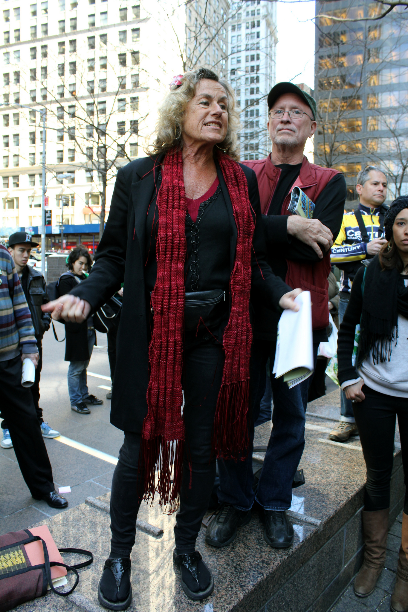 Bernardine Dohrn and Bill Ayers speak to protesters in Zuccotti Park